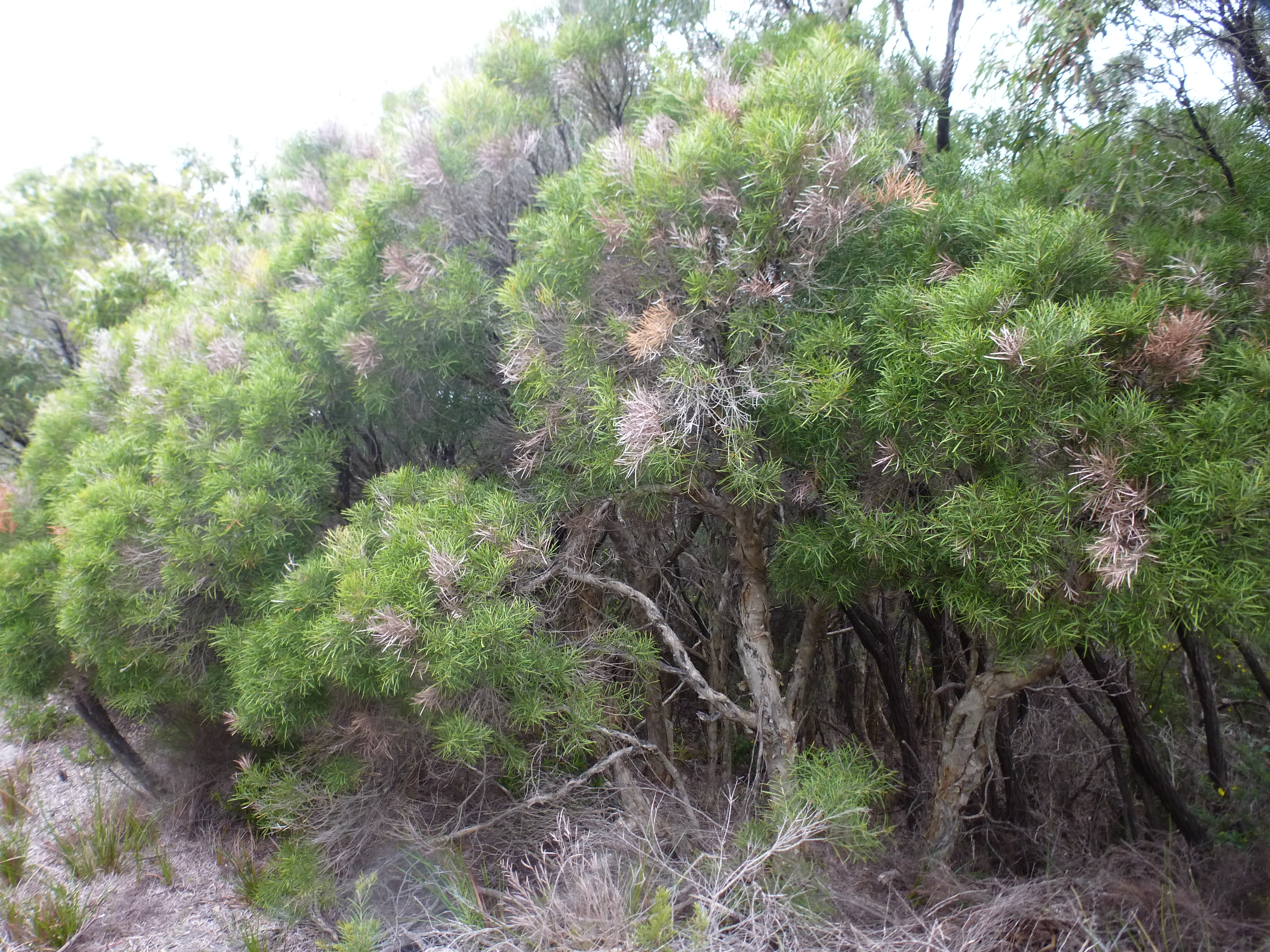 Melaleuca croxfordiae at the type location, Shelly Beach Road (West Cape Howe National Park)